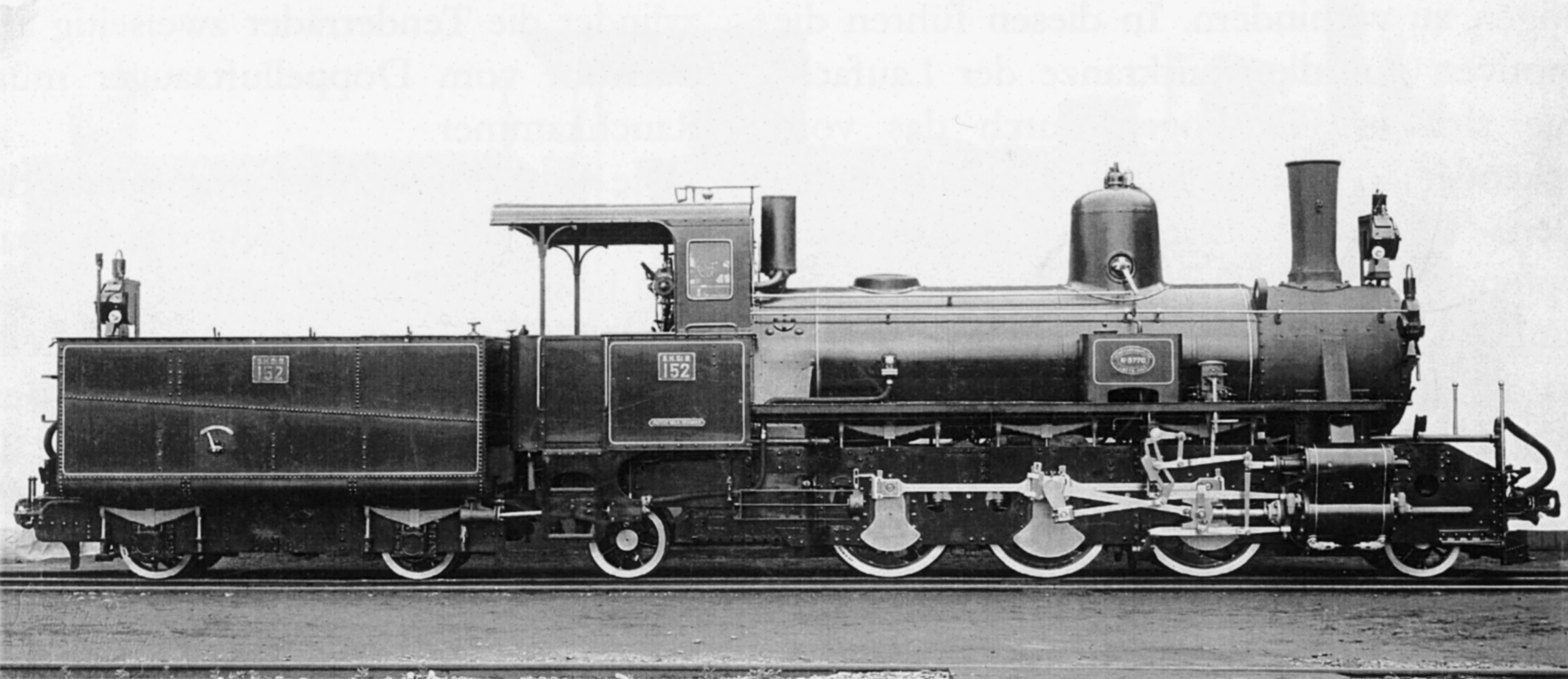 Bosnisch-Herzegowinische Landesbahnen Class IIIb5, later Yugoslavian States Railway Class 73, works photograph